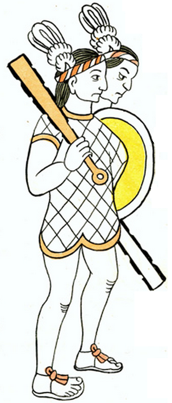 Depiction of the mesoamerican gambeson "Ichcahuipilli" in its medium length version, usually protecting only the chest in short version, in the medium version also the shoulders and pelvis, and in the long version protected also arms, forearms and from thighs to ankles . Carried by a Tlaxcalan warrior. Lienzo de Tlaxcala, XVI century.